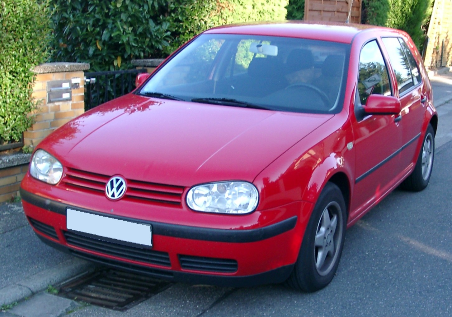 VW Golf IV